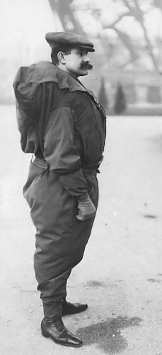 Francois Reichelt, before his fatal attempt